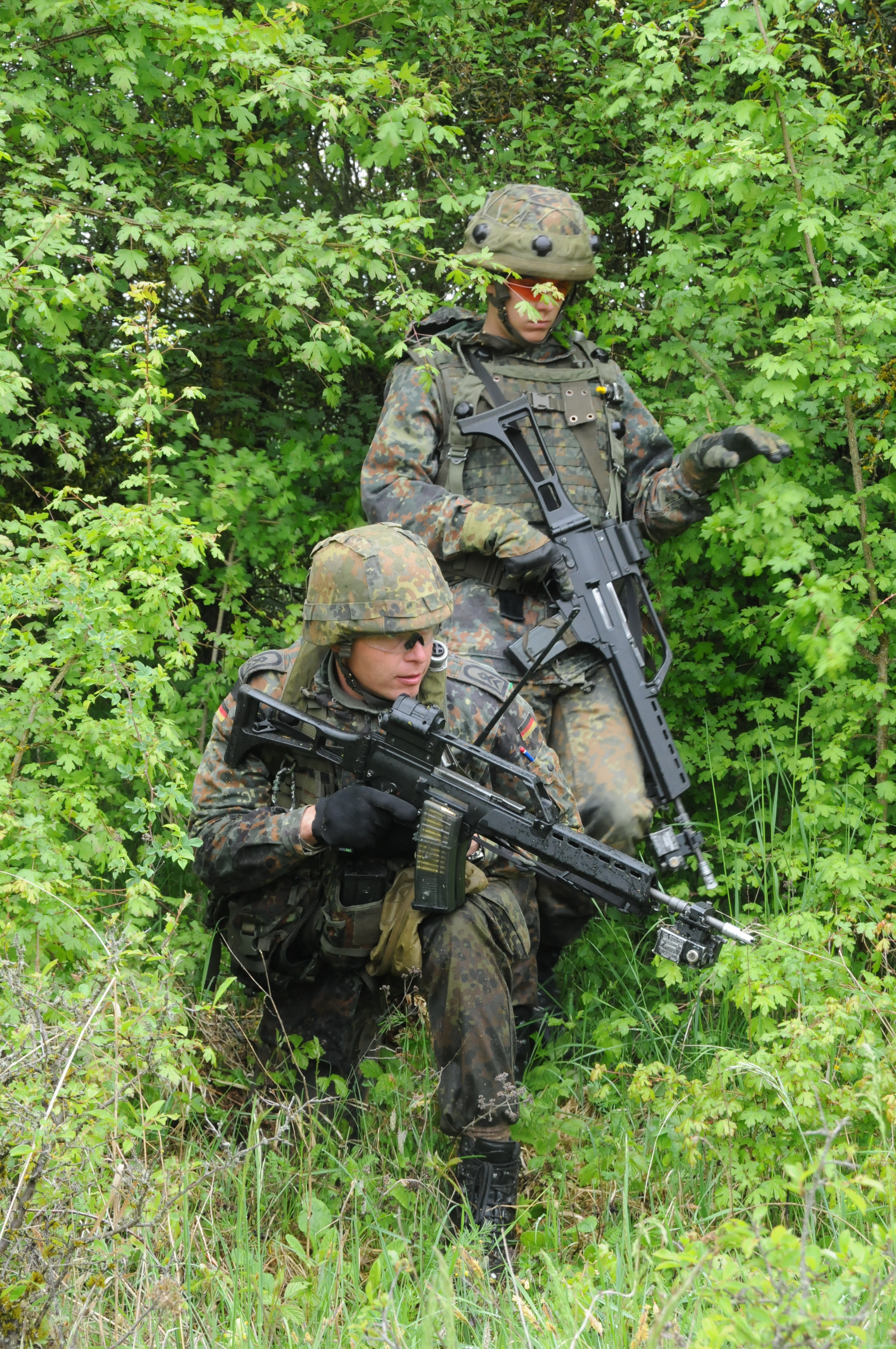 German soldiers of 2nd Company, 1st Battalion, 40th Mechanized Infantry Regiment pull security during an Operational Mentor Liaison Team training exercise at the Joint Multinational Readiness Center in Hohenfels, Germany, May 12, 2012. OMLT XXIII and Police Operational Mentor Liaison Team VII training are designed to prepare teams for deployment to Afghanistan with the ability to train, advise, and enable the Afghan National Security Force in areas such as counter-insurgency, combat advisory, and force enabling support operations.